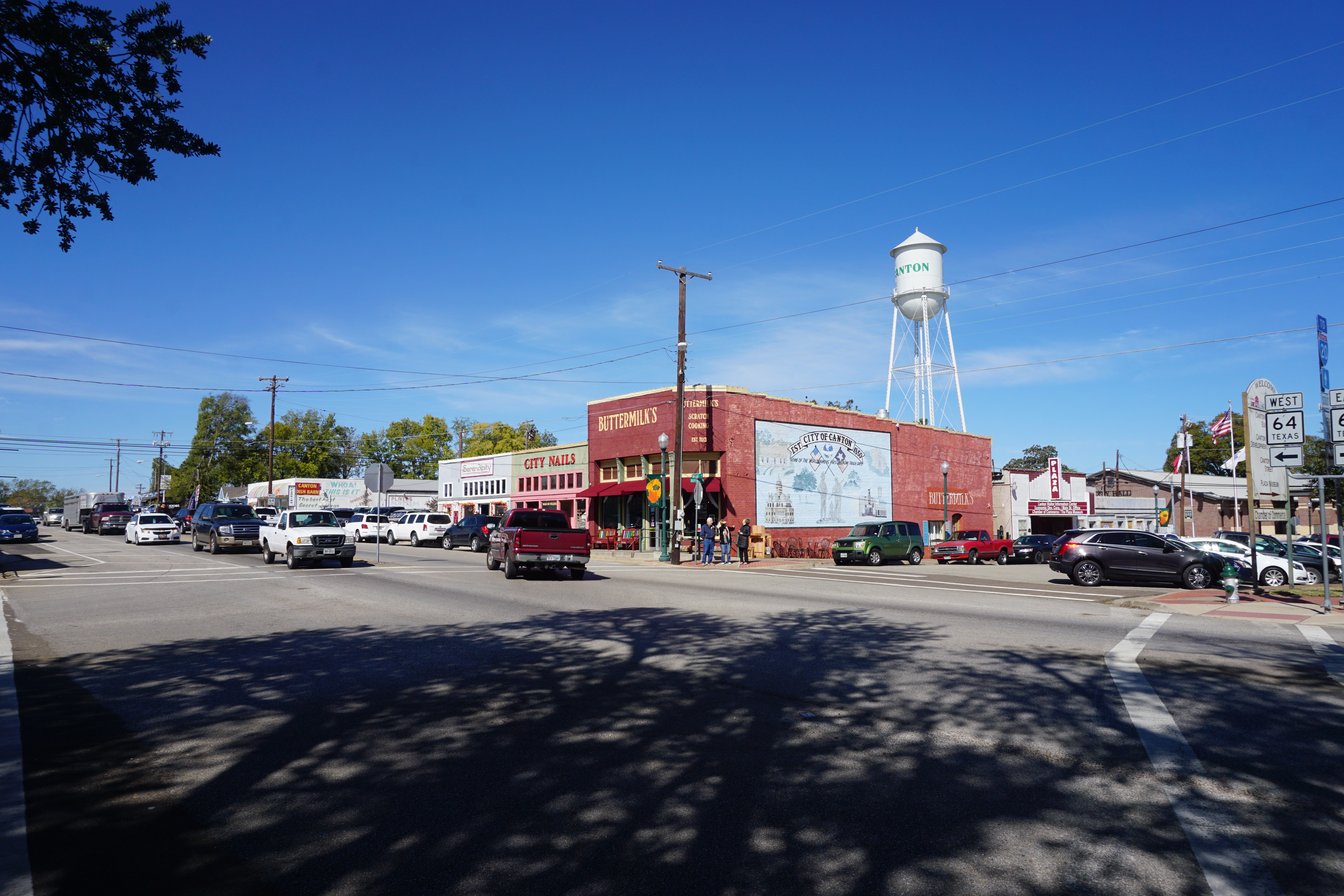 The intersection of North Buffalo Street and West Dallas Street in Canton, Texas (United States).